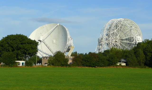 Jodrell Bank Radio Telescopes The Mark II scope to the left is in SJ7970, and the much larger Mark I, facing away, is in SJ7971.